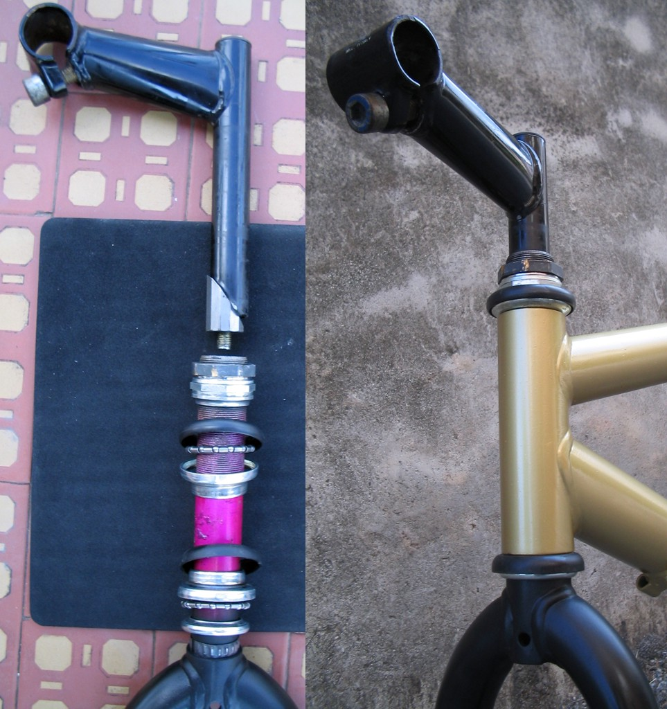 headset classic